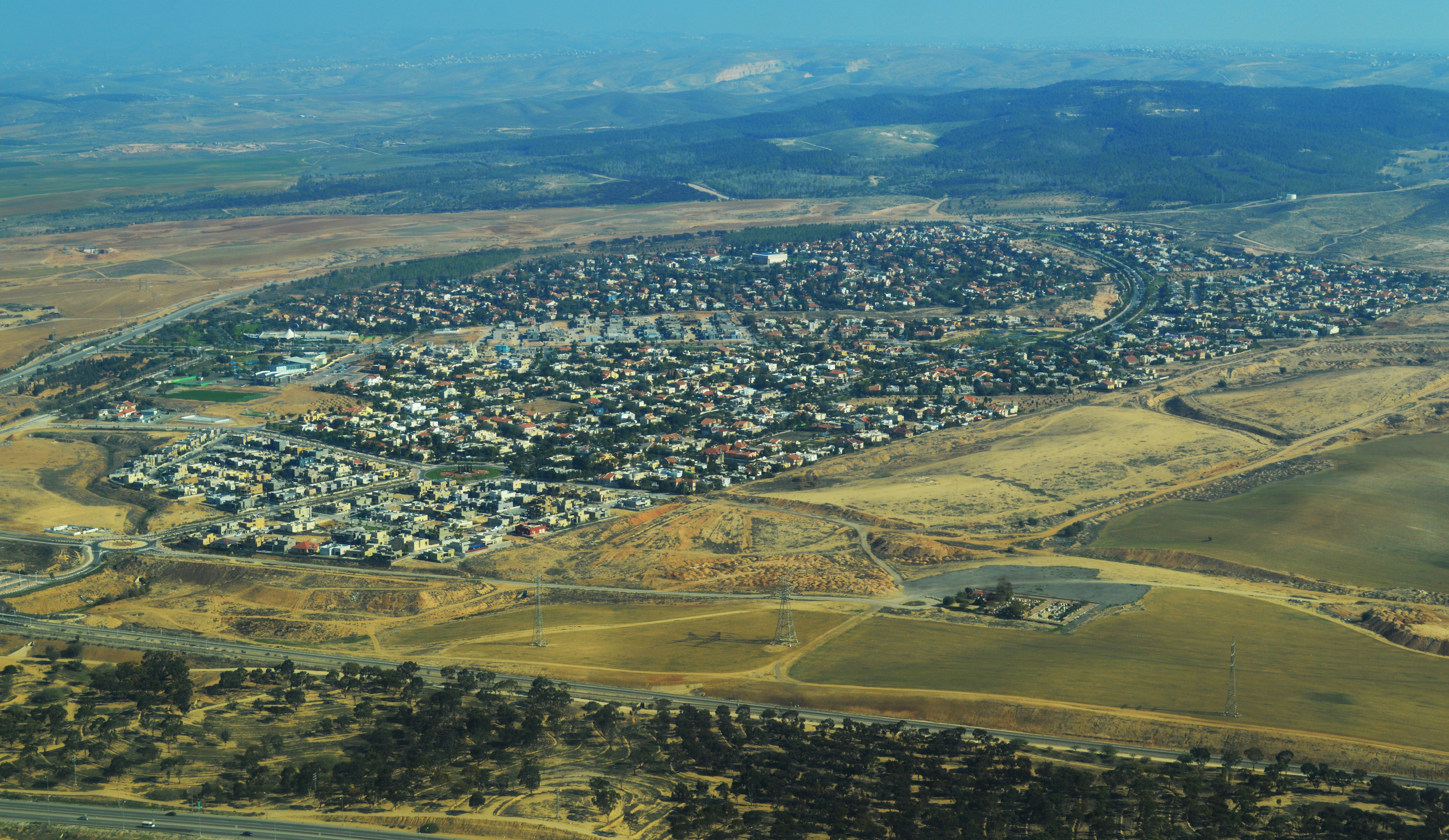 Lehavim Aerial View